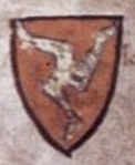 The coat of arms of the King of Mann, as recorded on the Armorial Wijnbergen.